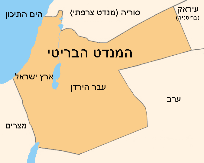 British Mandate Palestine 1920